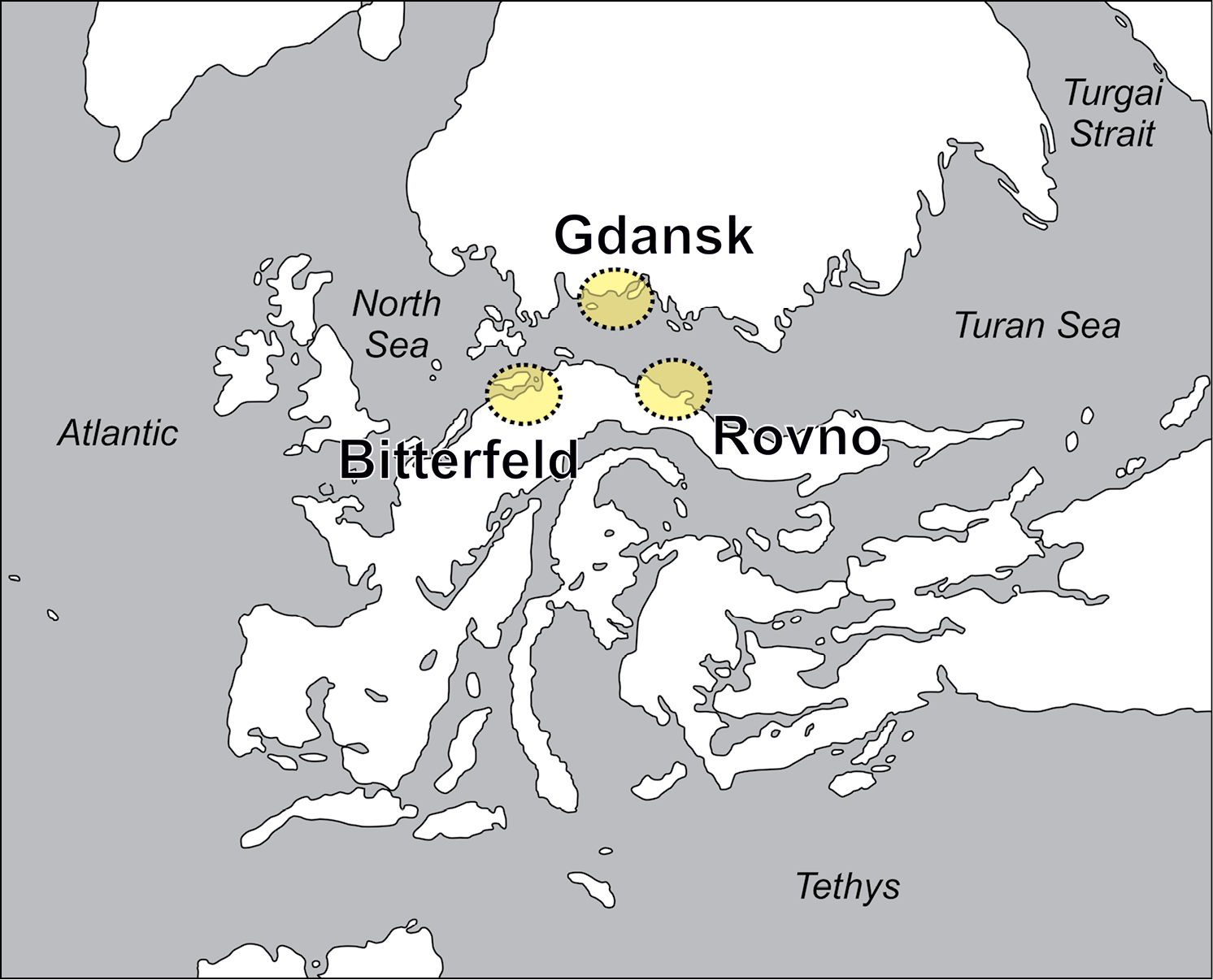 Paleogeographic map of Europe during the early to middle Eocene. Yellow areas indicate the position of the present-day amber Lagerstätten at Bitterfeld, Gdansk and Rovno. Modified after Popov et al. 2004, Denk and Grimm 2009, Blakey 2011, Szwedo and Sontag 2013, and Wolfe et al. 2016.